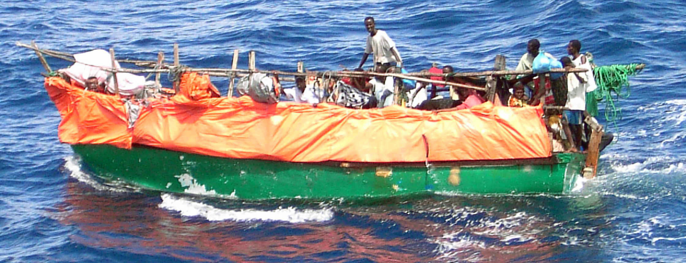 Crew members assigned to the US Navy (USN) Cyclone Class Coastal Defense Ship USS FIREBOLT (PC 10) rescue refugees from Somalia after their boat, a fishing Dhow, capsized somewhere out in the Indian Ocean (IOC). The FIREBOLT is currently providing Maritime Security Operations (MSO) in support of Operation ENDURING FREEDOM.